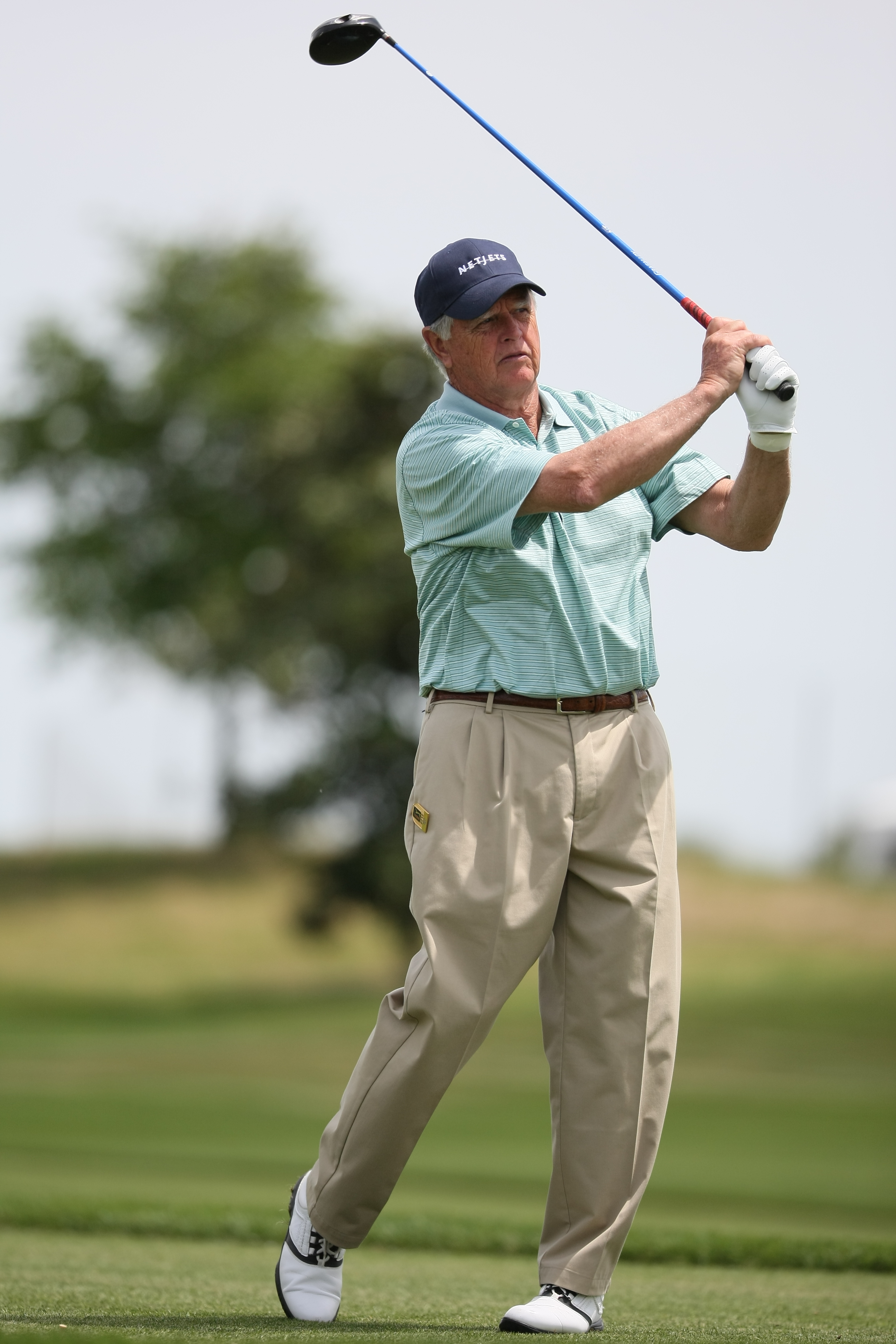 Legends of Golf in Savannah, GA April 19, 2010